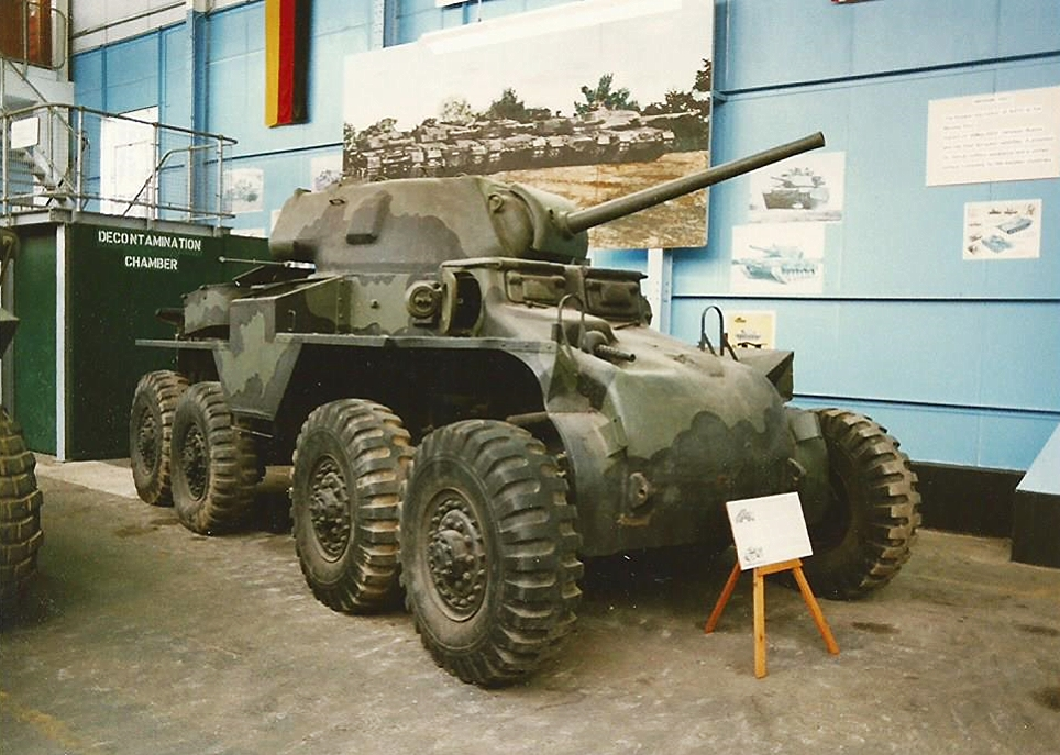 A US T18 Boarhound heavy armoured car at the Bovington Tank Museum, Dorset, March 1998. Only 30 were built and this is the only survivor of its type. The original picture incorrectly labeled it a T17 Staghound.